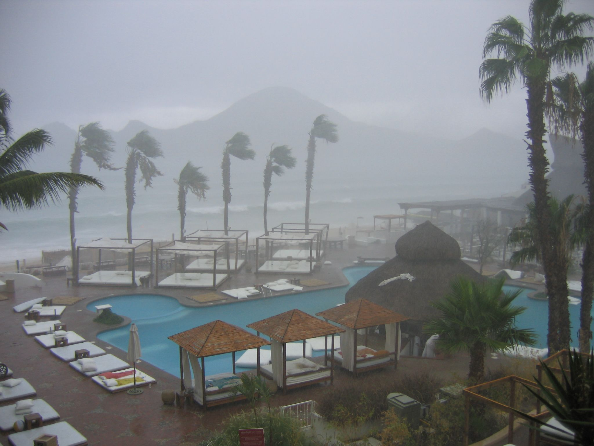 Effects of Tropical Storm Emilia, 2006, in Cabo San Lucas